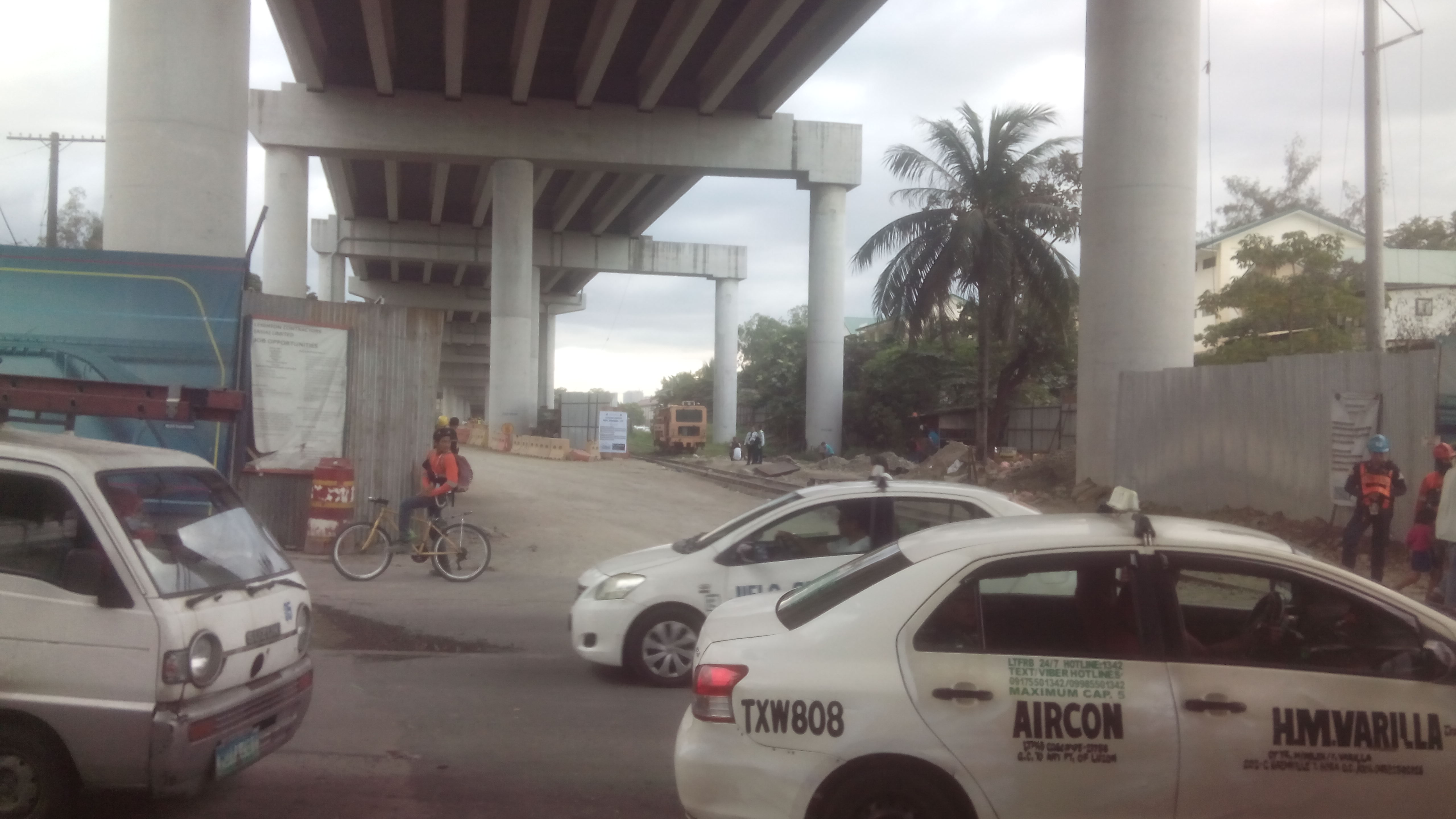 A view of the present Sangangdaan Railway Station (aka. Caloocan Railway Station) in the Philippine National Railways.